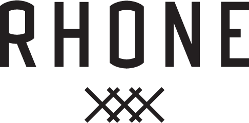 Rhone Official Company Logo 2017